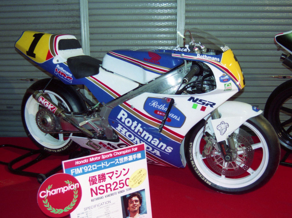 Honda NSR250 (1992, Luca Cadalora)